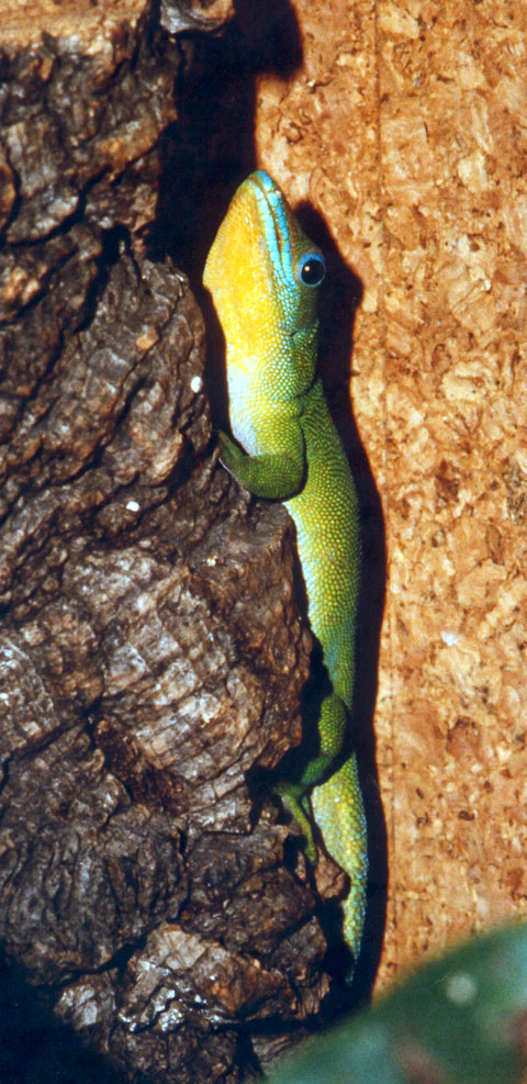 Phelsuma flavigularis P. flavigularis throat. Photograph by Jurriaan Schulman copyright Jurriaan Schulman. Permission is granted to copy, distribute and/or modify under the GFDL, version 1.2 any later version published by the Free Software Foundation; with no Invariant Sections, with no Front-Cover Texts, and with no Back-Cover Texts.